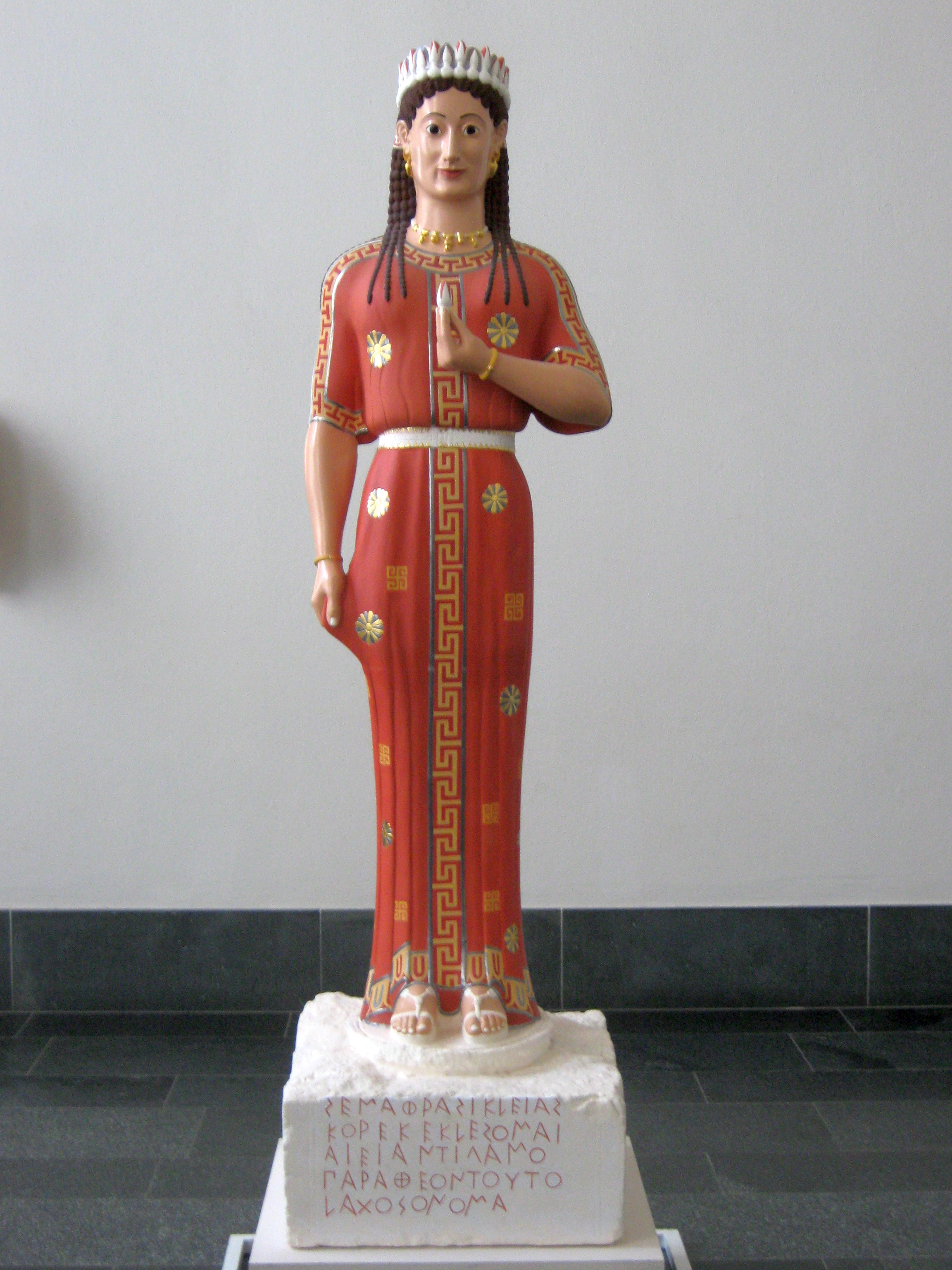 Rekonstruction of the Phrasikleia Kore for the Bunte Götter exhibition, here in the Pergamonmuseum in Berlin 2010.